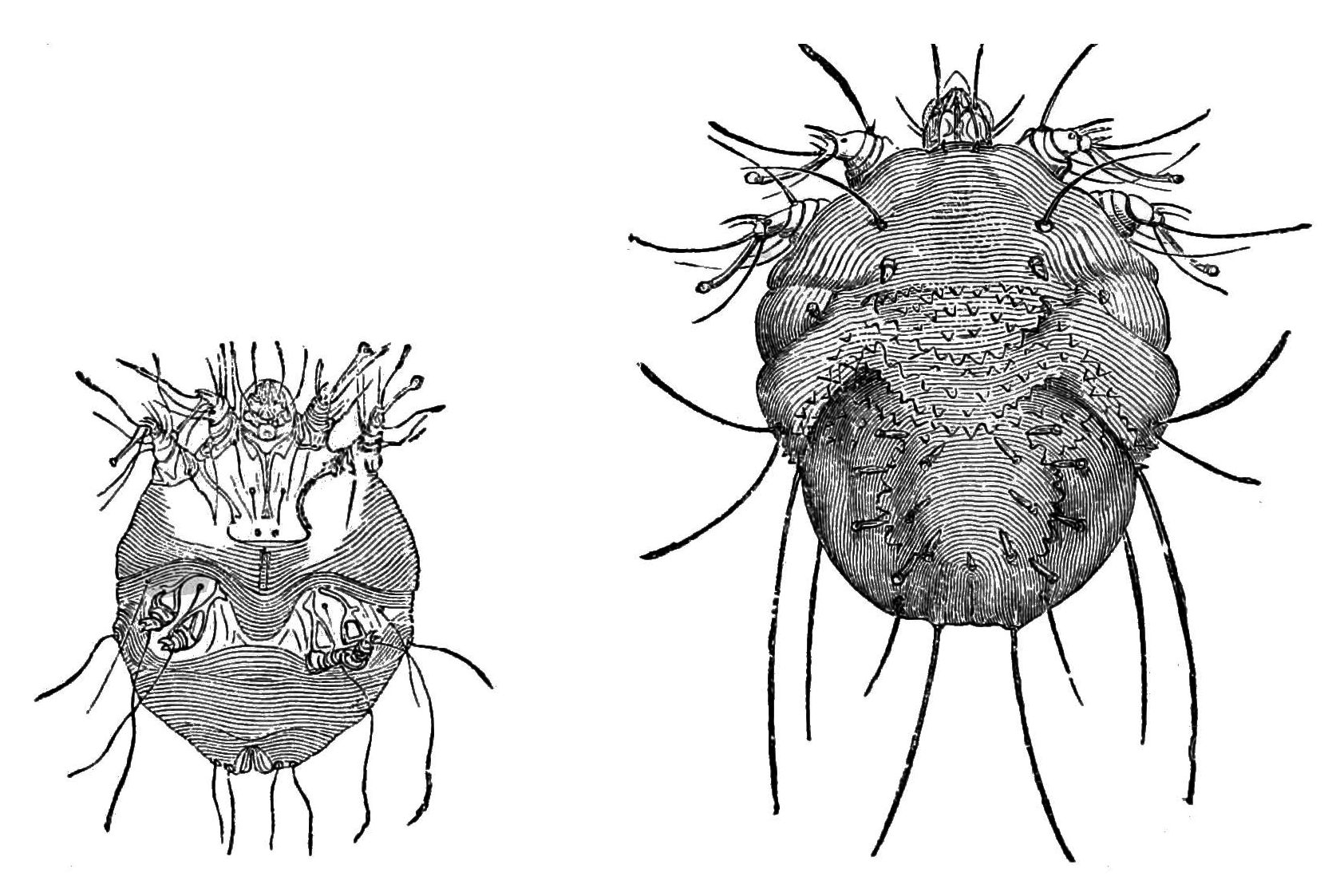 Human flea.Sarcoptes scabieis. Left: male,lower surface; right: female, Upper Surface.